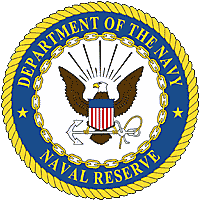 Coloured emblem of the United States Navy Reserve